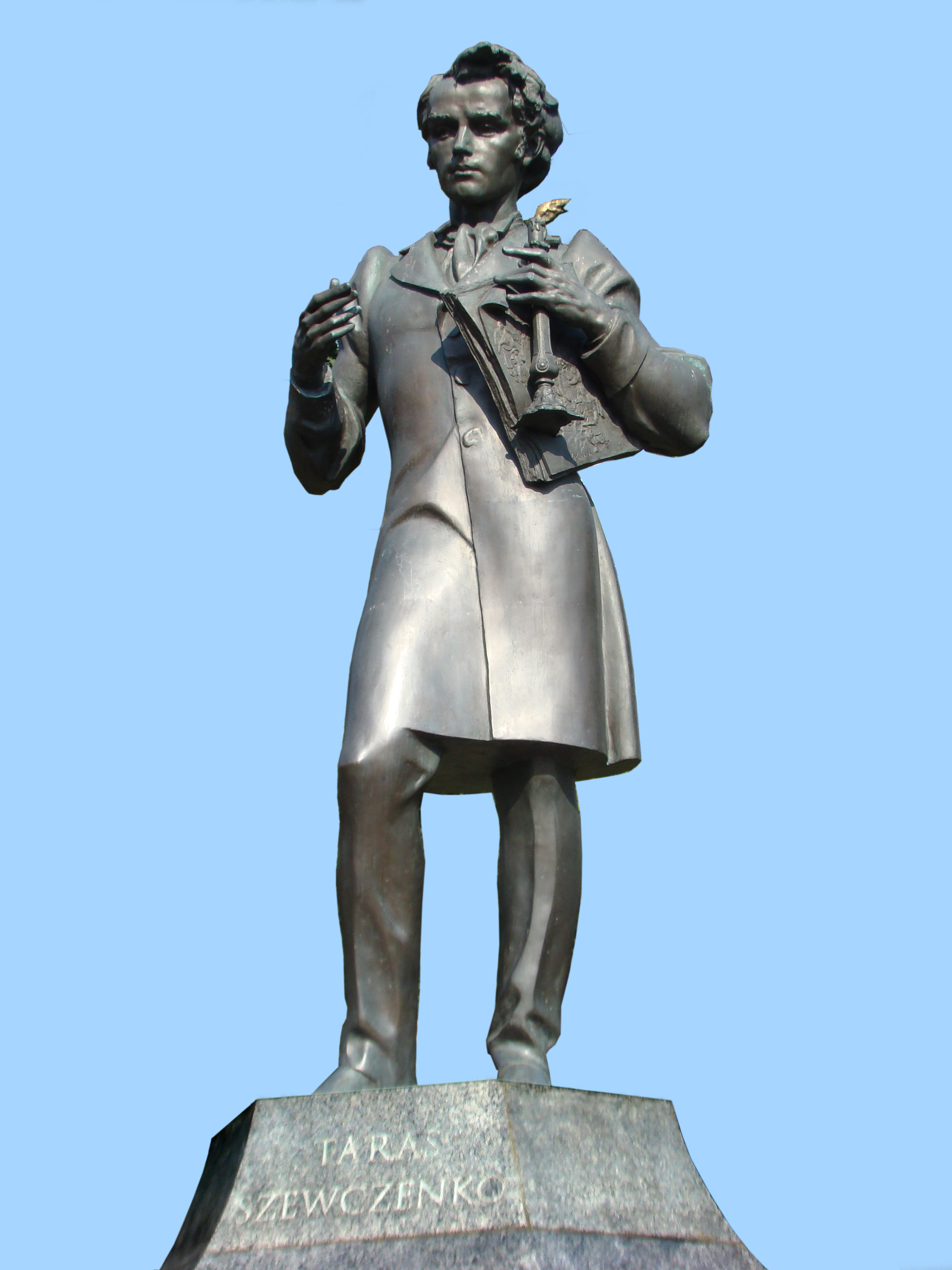 Taras Shevchenko, Ukrainian poet, Warsaw monument